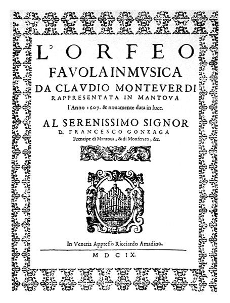 Title page of Monteverdi's opera L'Orfeo; Published in Venice in 1609 by Ricciardo Amadino